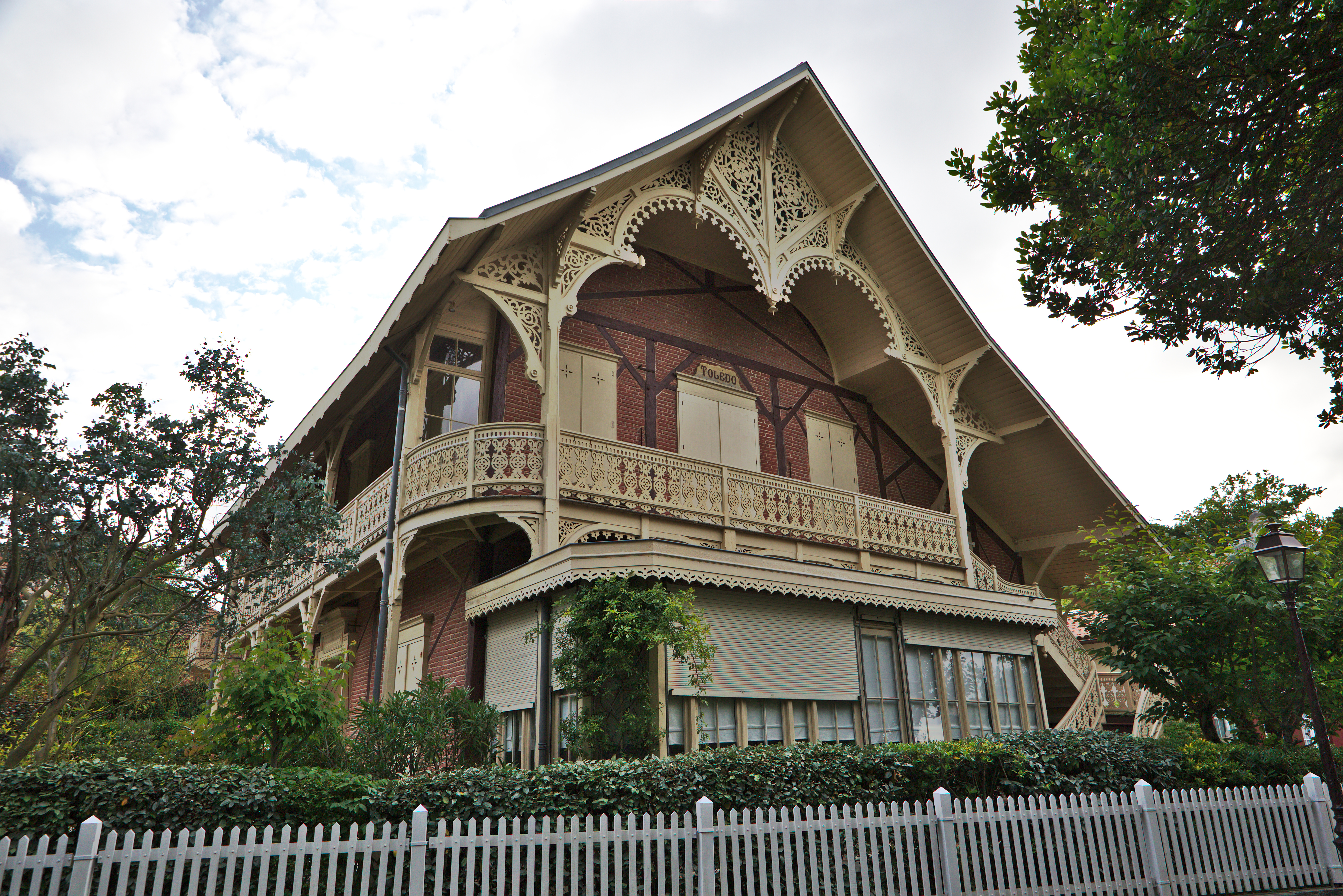 Mansion Toledo, Arcachon, France